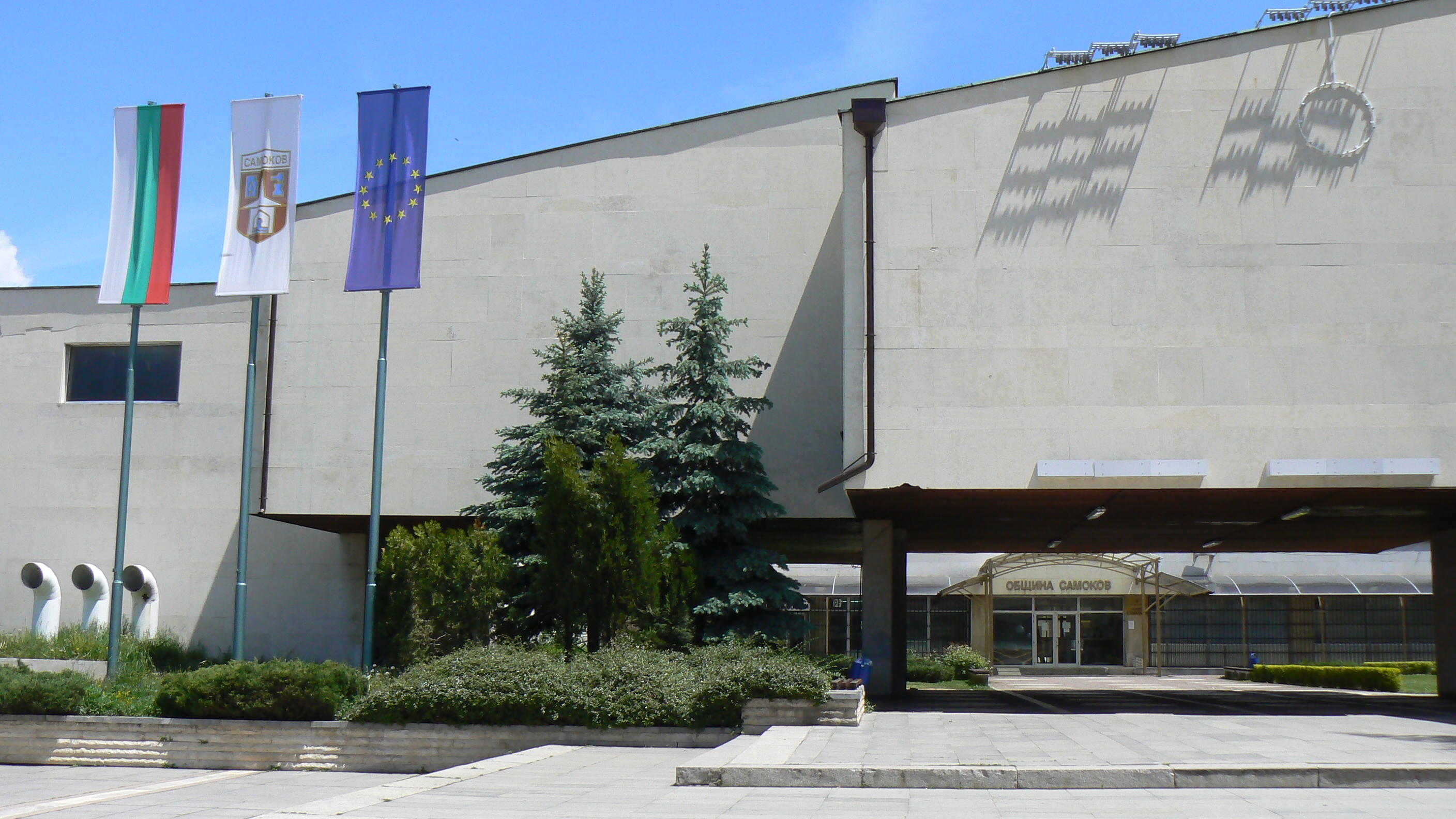 The building of Samokov municipality in Samokov, Bulgaria